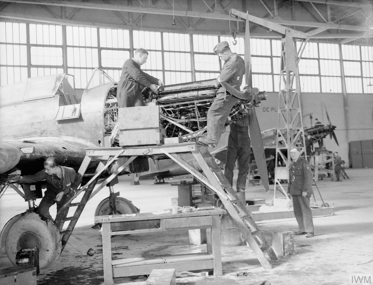 Royal Air Force- France, 1939-1940. Mechanics of No. 226 Squadron RAF overhaul the engines of their Fairey Battles in a hangar at Reims.